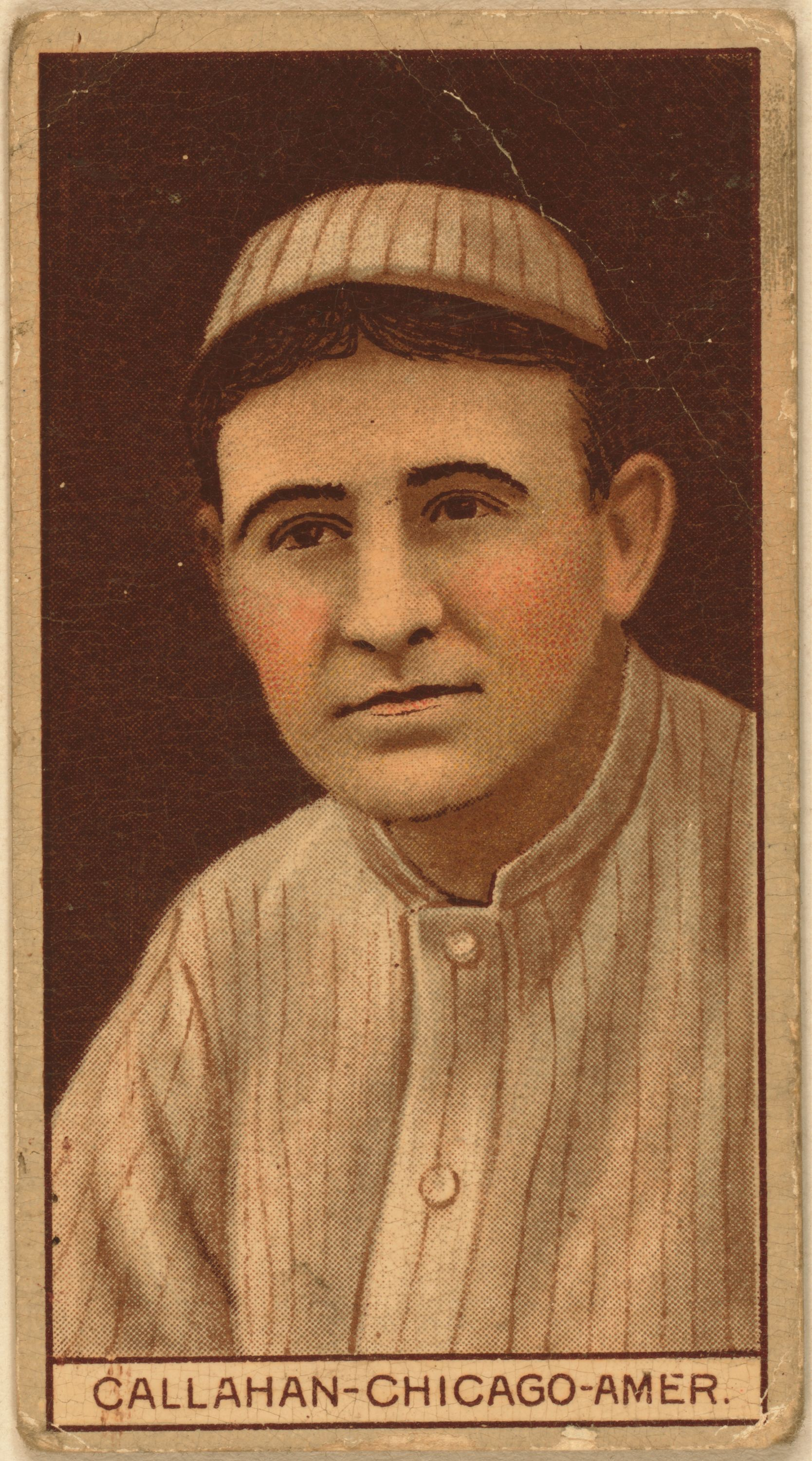 John James Callahan